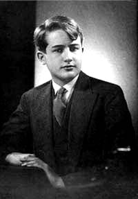 Nicolás Gómez Dávila, Catholic writer and aphorist from Columbia